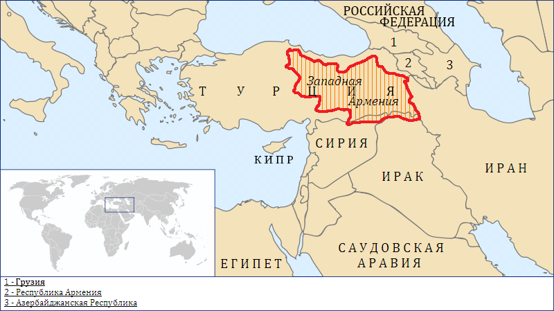 Six vilayets